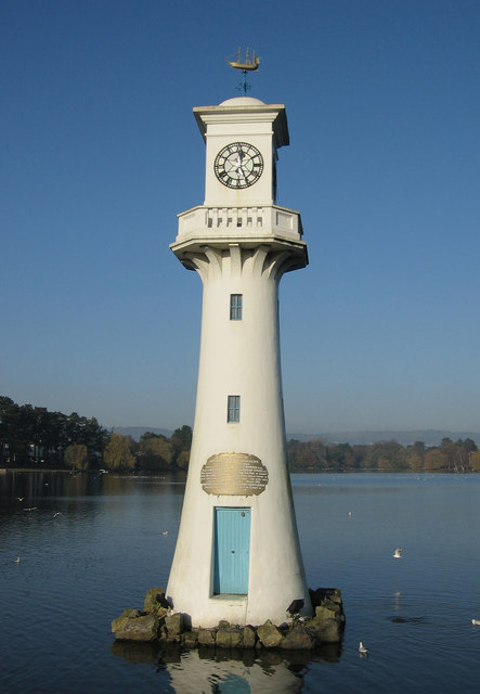 Scott Memorial, Roath Park Lake, Cardiff. Image taken from the promenade on a sunny winter's day